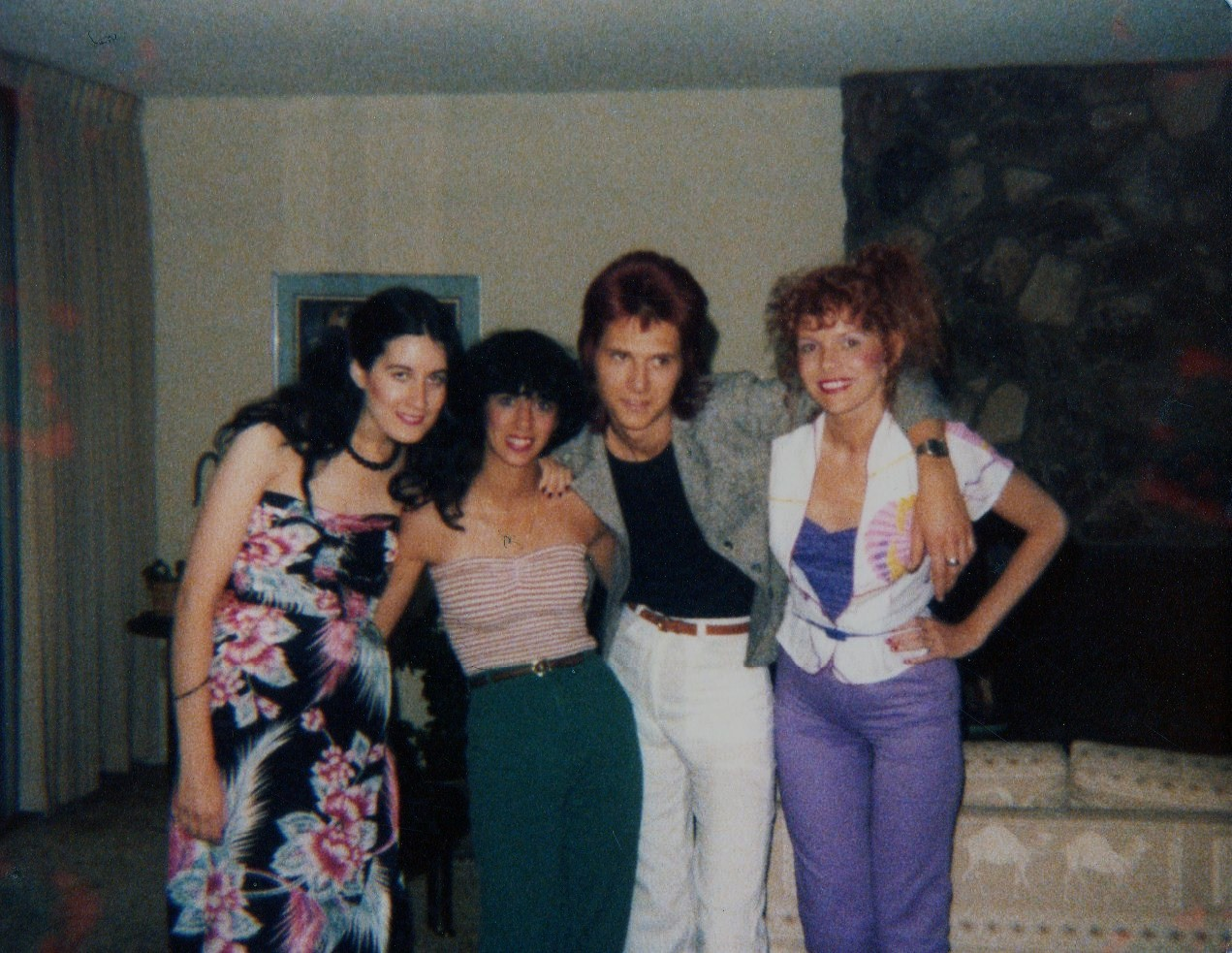 group of friends in 1979 fashions